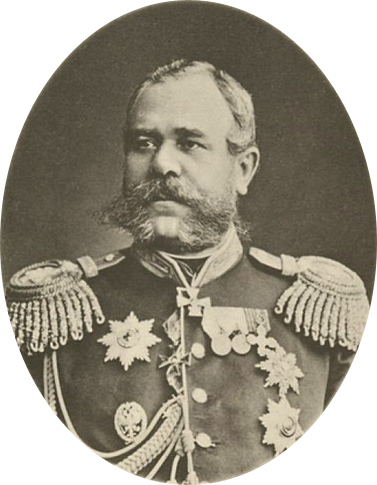 Obruchev Nikolay Nikolaevich (1830-1904) , the Russian military man and the statesman, the general of the infantry (1887), the adjudant general (1878), the honorary member of the Petersburg Academy of Sciences (1888), the professor of the General Staff Academy, one of the main figures of military reforms in Russia 1860-70th years, the chief of the Russian General Staff (1881-1897)